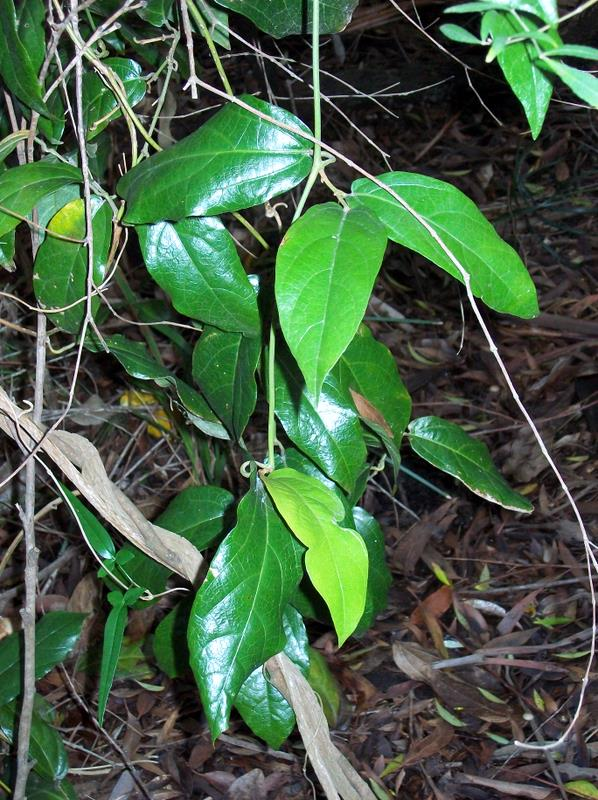 Pararistolochia_praevenosa previously Aristolochia_praevenosa, Hunter Botanic Gardens